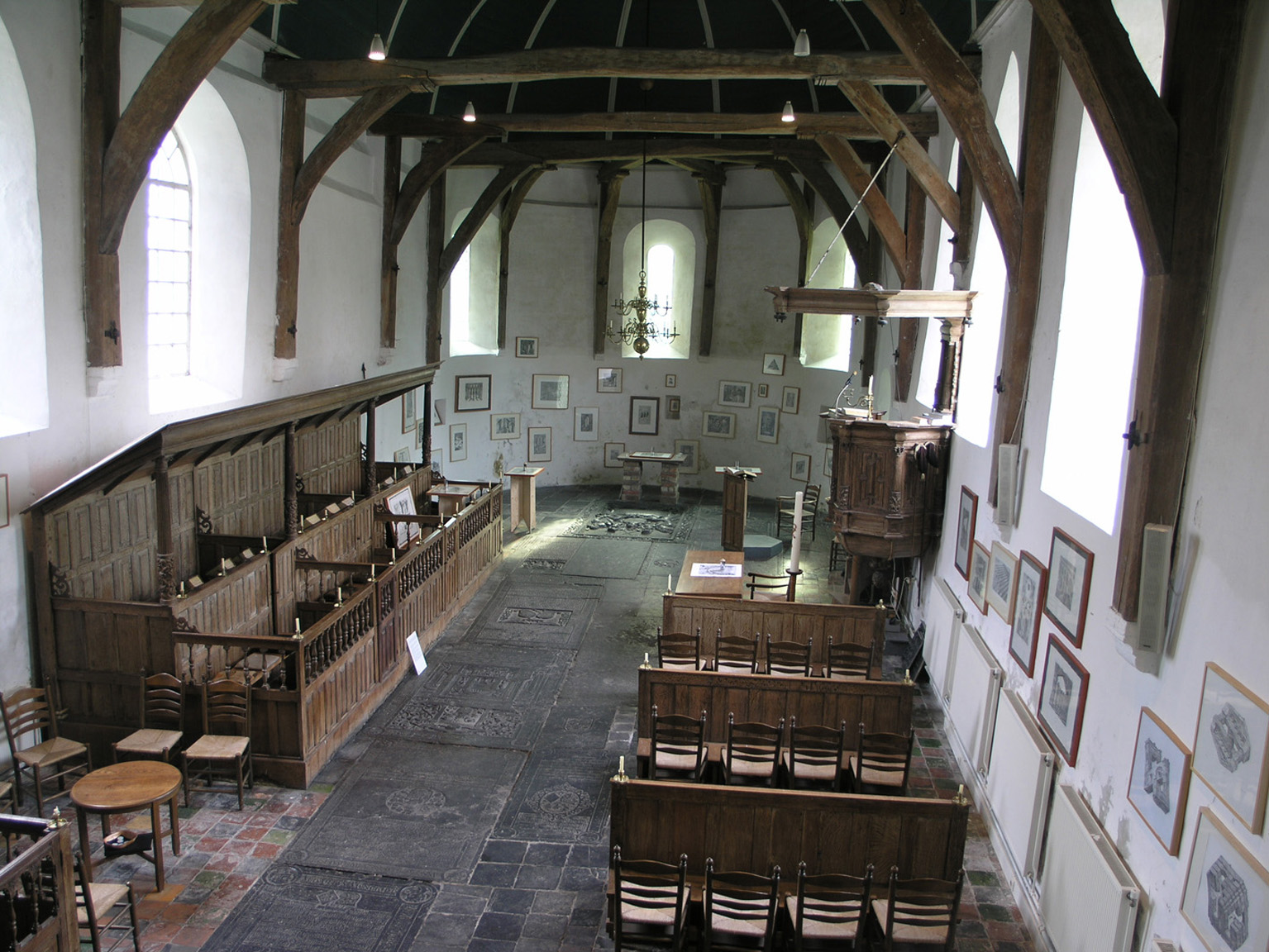 The Church of Jorwert with an art exhibition inside